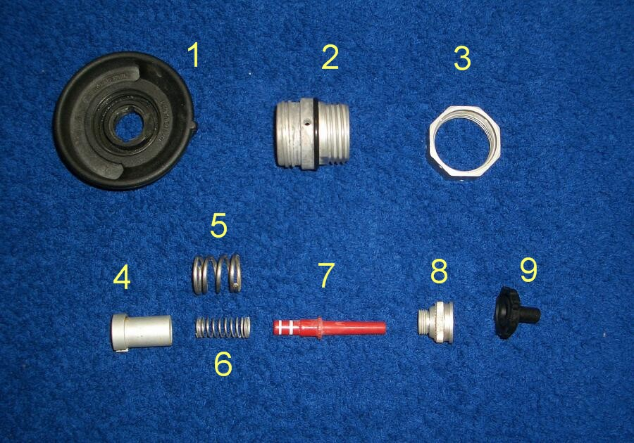 Pressure cooker, elements of relief valve